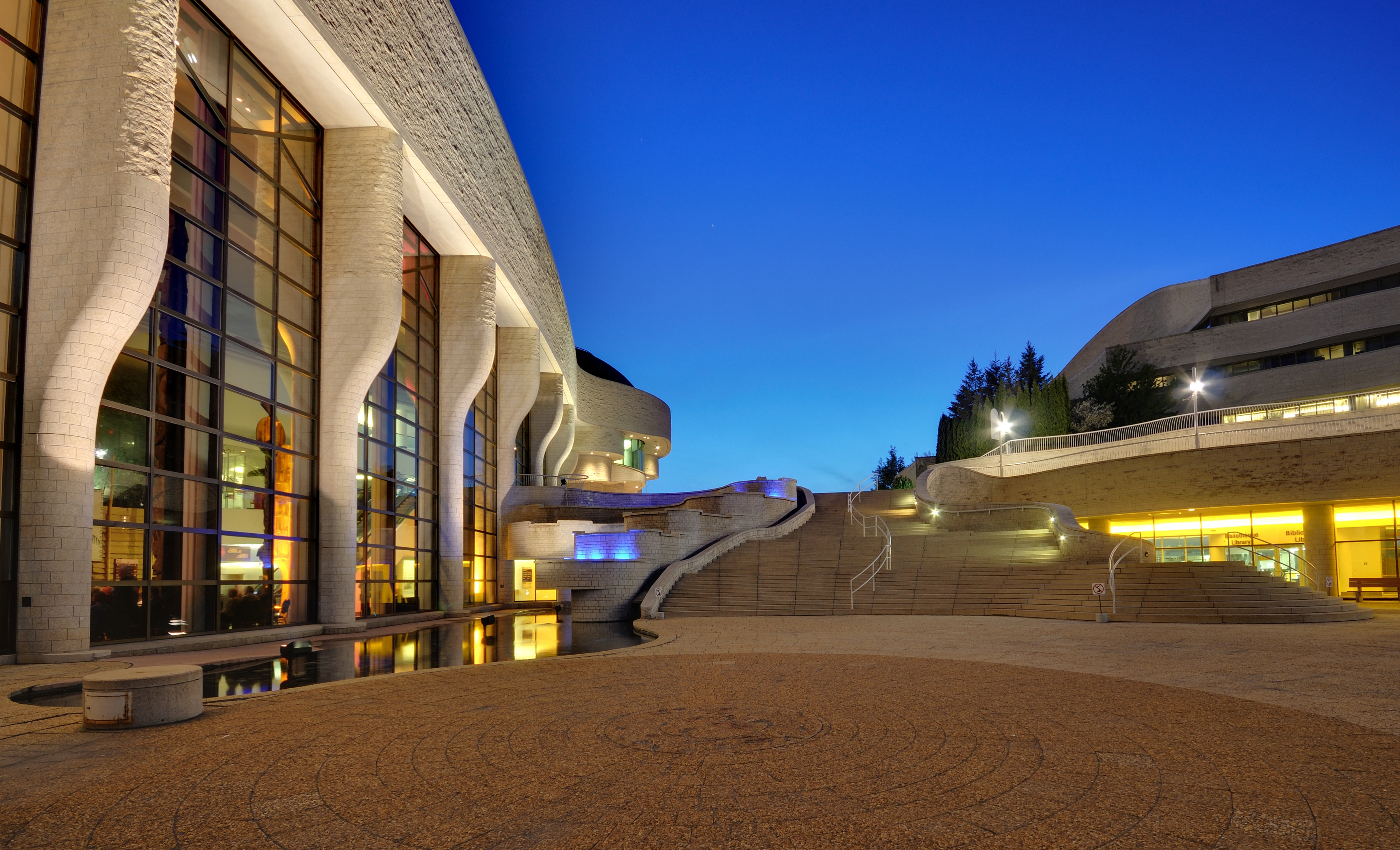 Gatineau: Canadian Museum of Civilization, view to the perron between the representative glass front of the museum (left) and the curatorial offices (right)